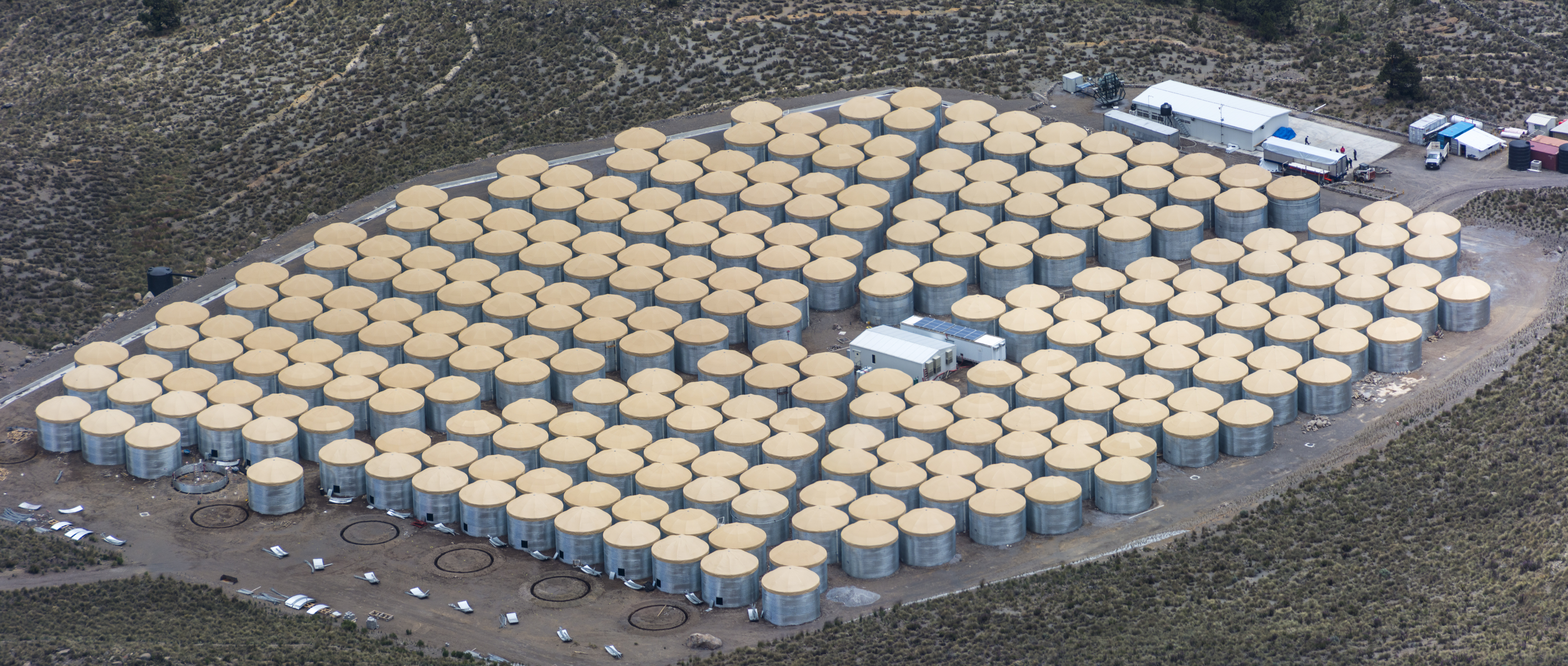 The HAWC detector August 19, 2014